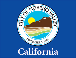 Flag of Moreno Valley, California